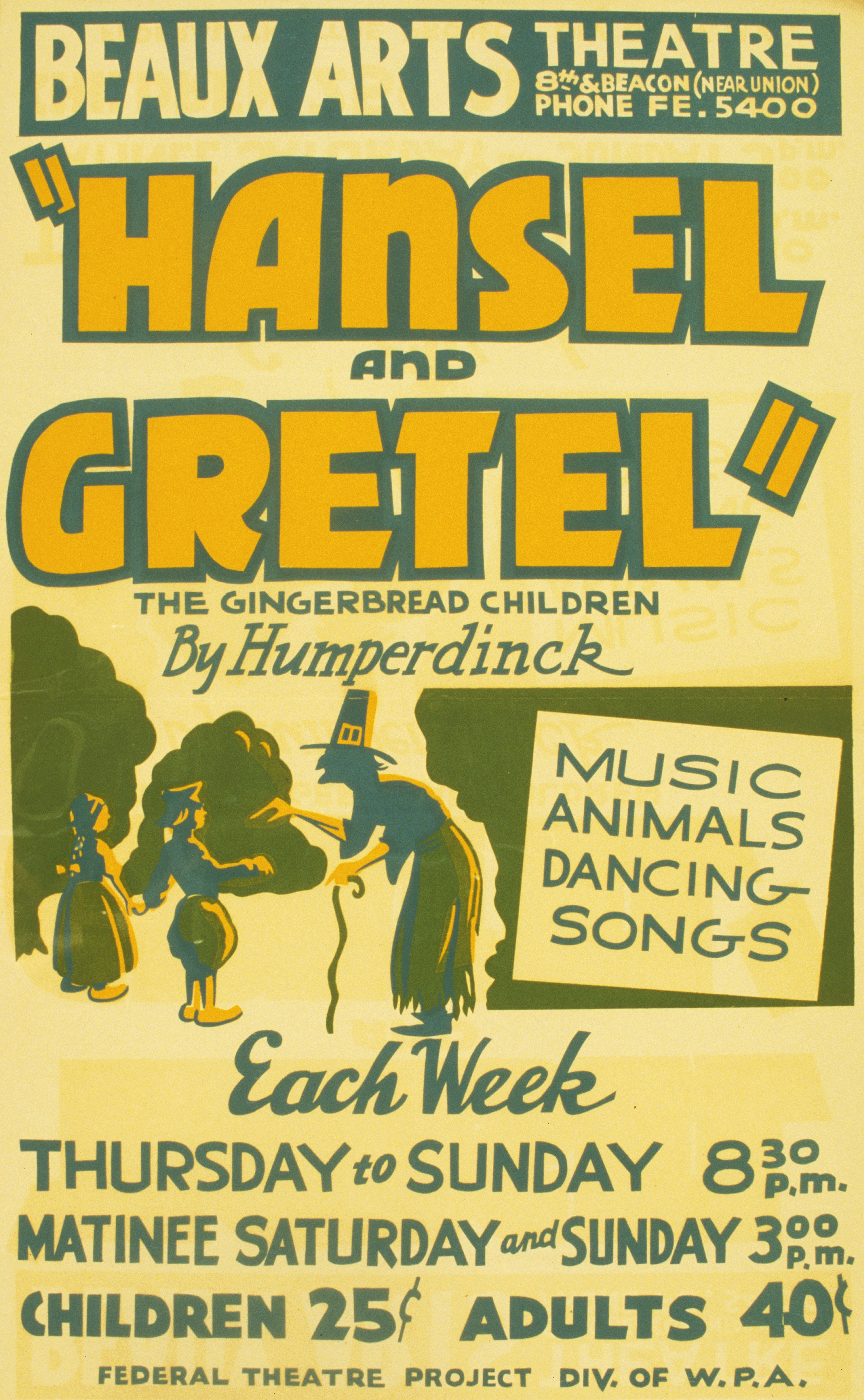 Color silkscreen poster for a Federal Theatre Project presentation of "Hansel and Gretel" by German composer Engelbert Humperdinck (1854-1921) at the Beaux Arts Theatre, 8th and Beacon Streets, Los Angeles, California, showing Hansel and Gretel talking to a witch.